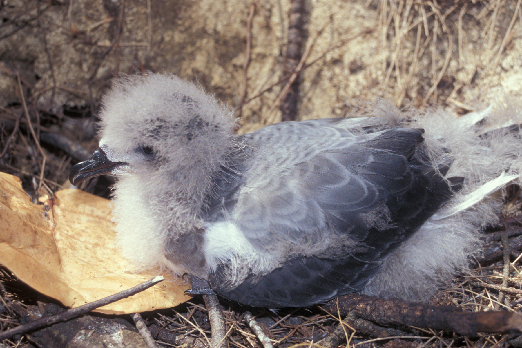 Casuarina equisetifolia (with Pterodroma hypoleuca). Location: Midway Atoll, Sand Island